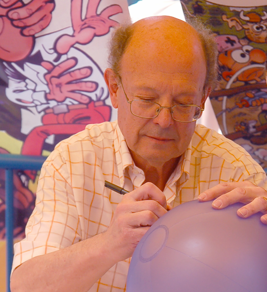 Francisco Ibáñez, possibly the most beloved Spanish comic artist, draws on a girl's ball. Feria del Libro 2007, Madrid, Spain.